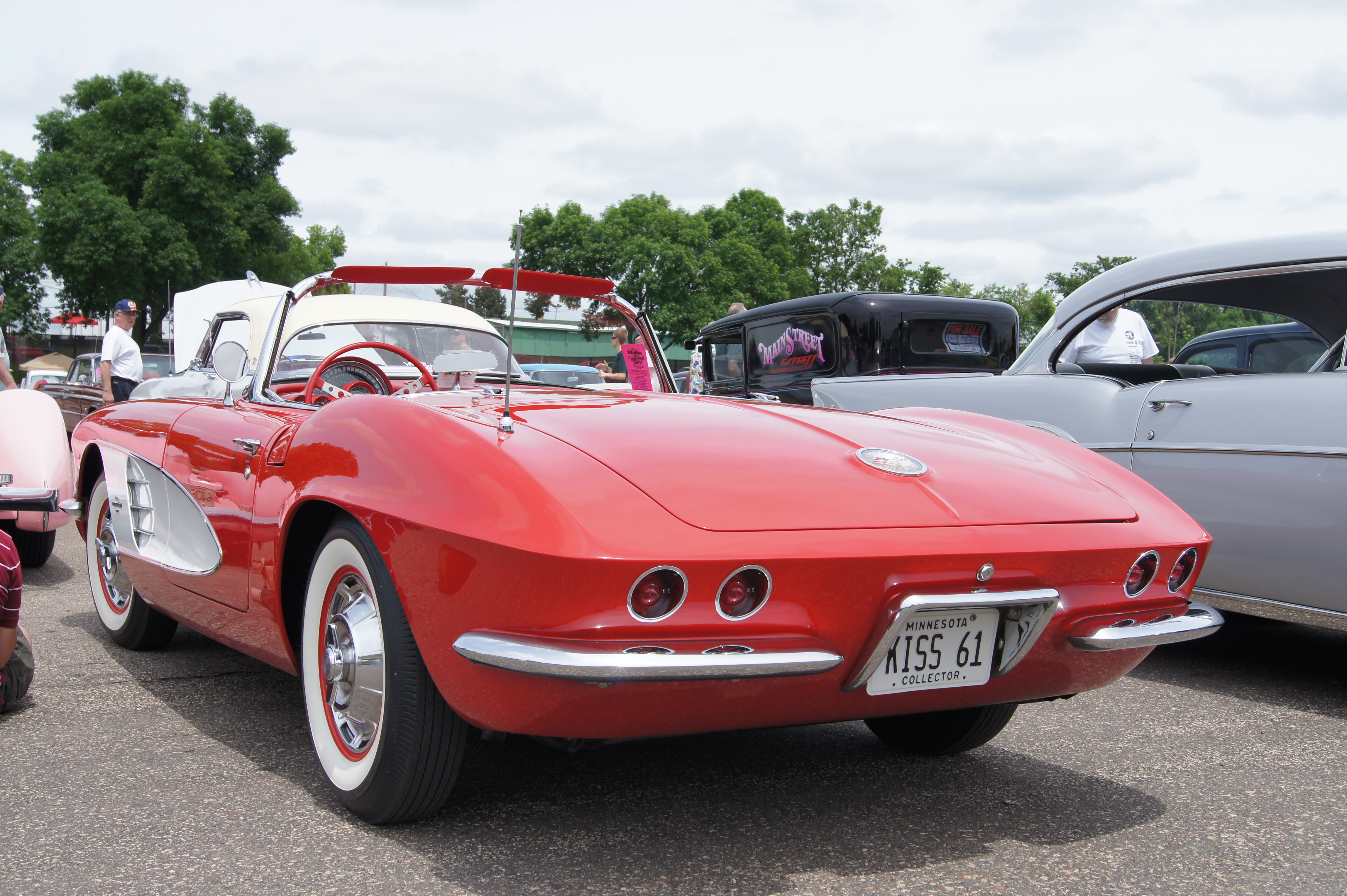 MSRA “BACK TO THE 50′s” 40th ANNIVERSARY June 21-23, 2013 State Fairgrounds St. Paul Minnesota More Car Pictures